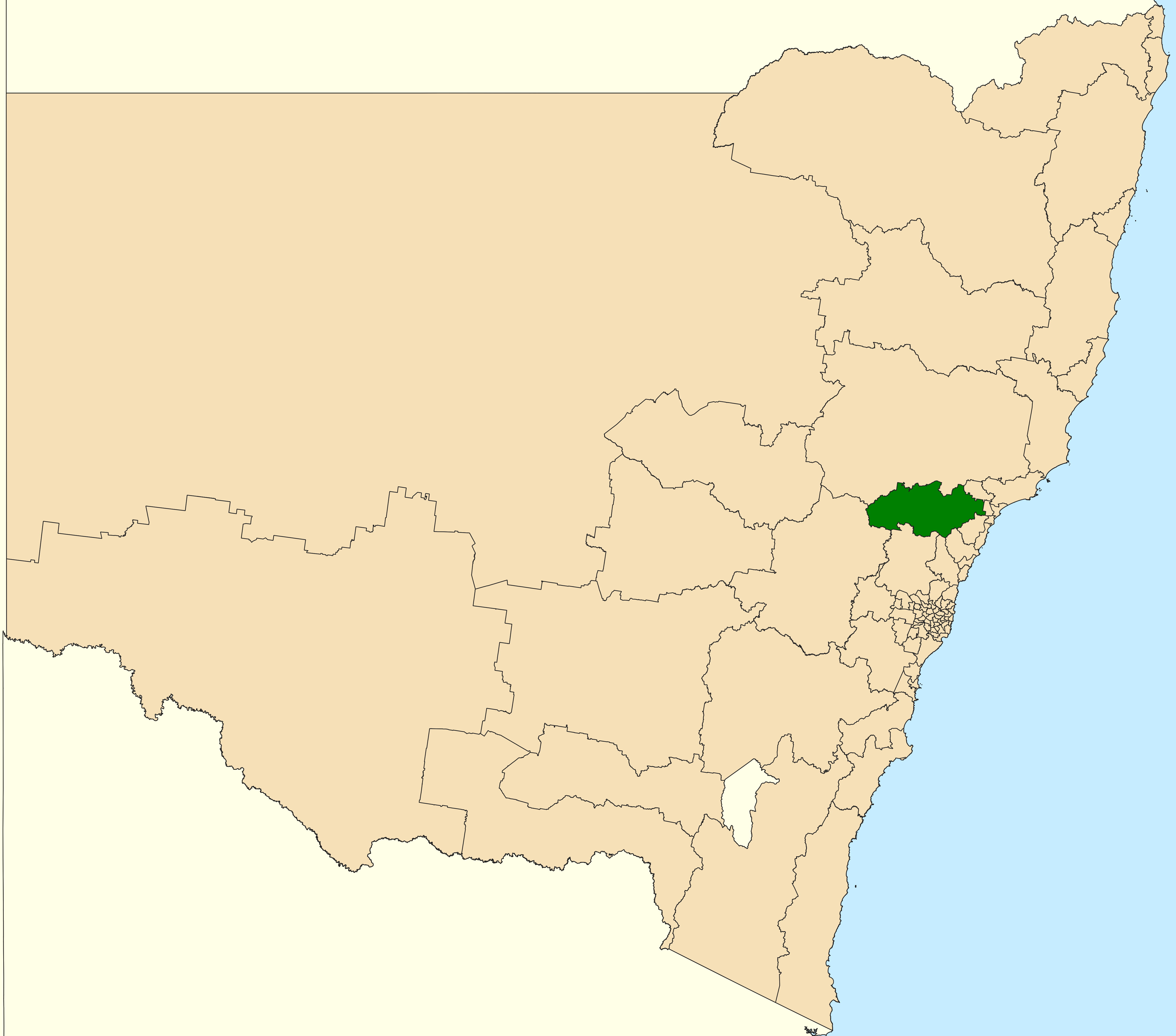 Location of the state electoral district of Cessnock (dark green) in New South Wales as of the 2019 New South Wales state election. Incorporates or developed using Administrative Boundaries ©PSMA Australia Limited licensed by the Commonwealth of Australia under Creative Commons Attribution 4.0 International licence (CC BY 4.0).